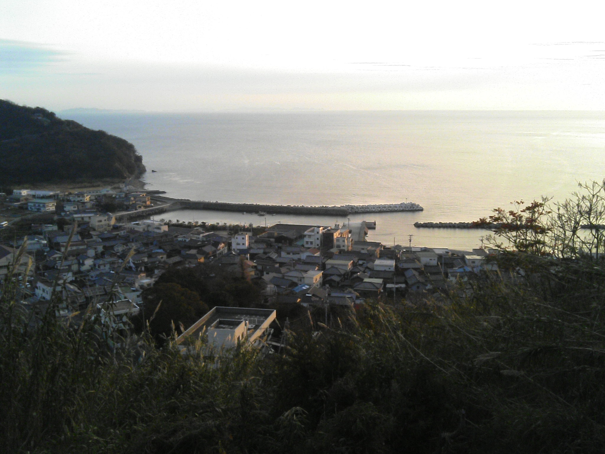 The Kuchō (九町) neighborhood of Ikata, Ehime, Japan, at sunset